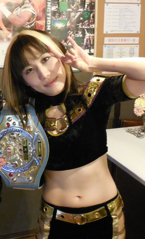 Japanese professional wrestler Mio Shirai with the ICE×60 Championship belt in November 2012.